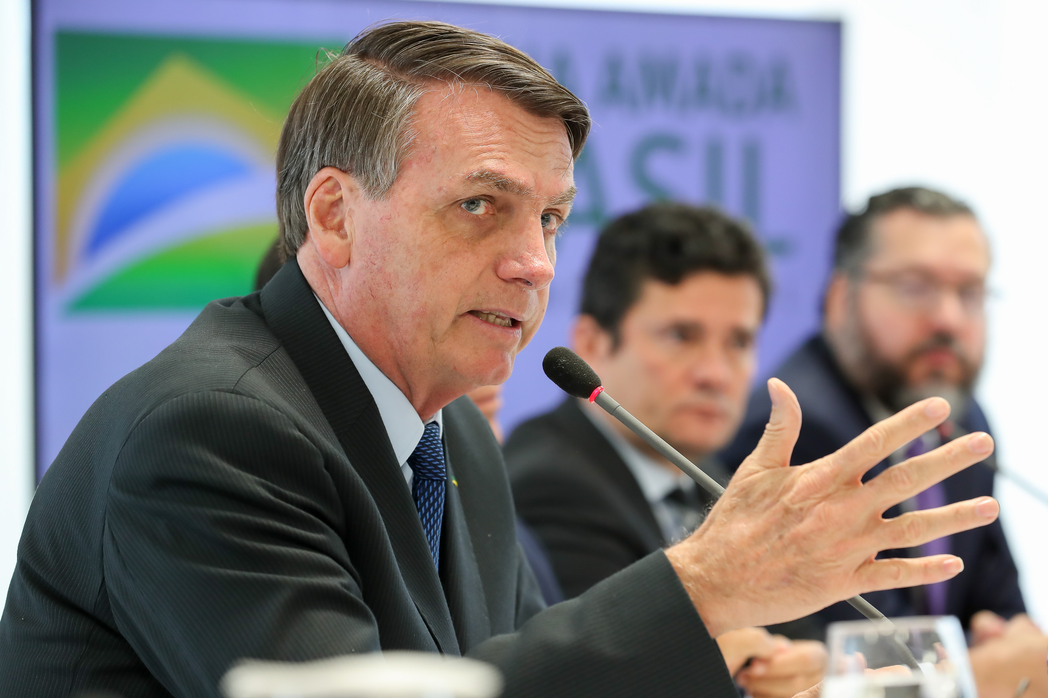 (Brasília - DF, 22/04/2020) Palavras do Presidente da República, Jair Bolsonaro. Foto: Marcos Corrêa/PR